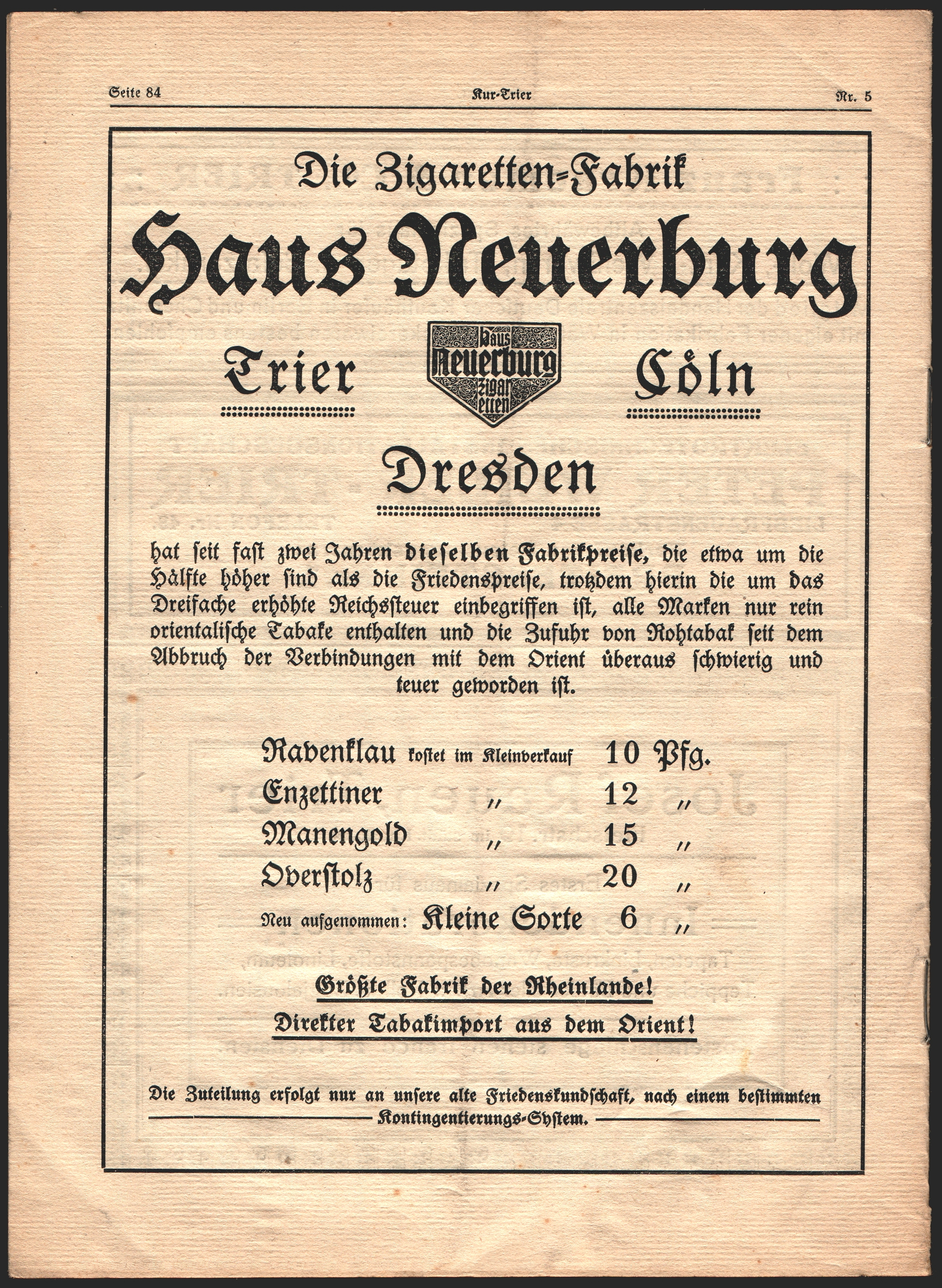 Back cover of the magazine "Kur-Trier", Sept. 1919, advertisement of the Cigarette factory "Haus Neuerburg"